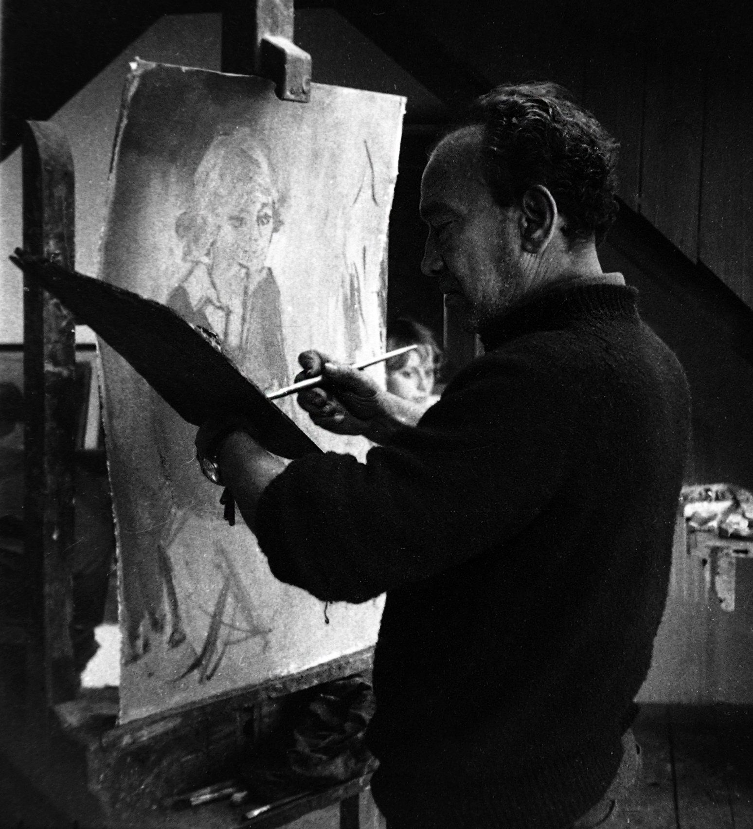 Manolo Lima Uruguayan painter in his studio.